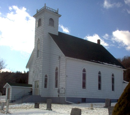 Little River United Baptist Church - Digby Neck 2nd Baptist Church (1876)